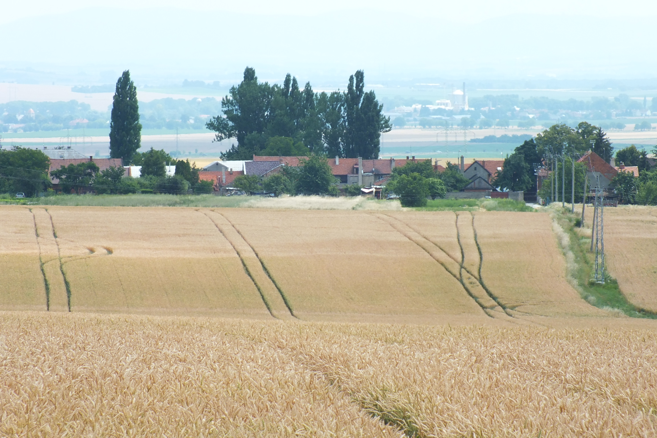 Village Kaple, part of Čelechovice na Hané, the Czech Republic.